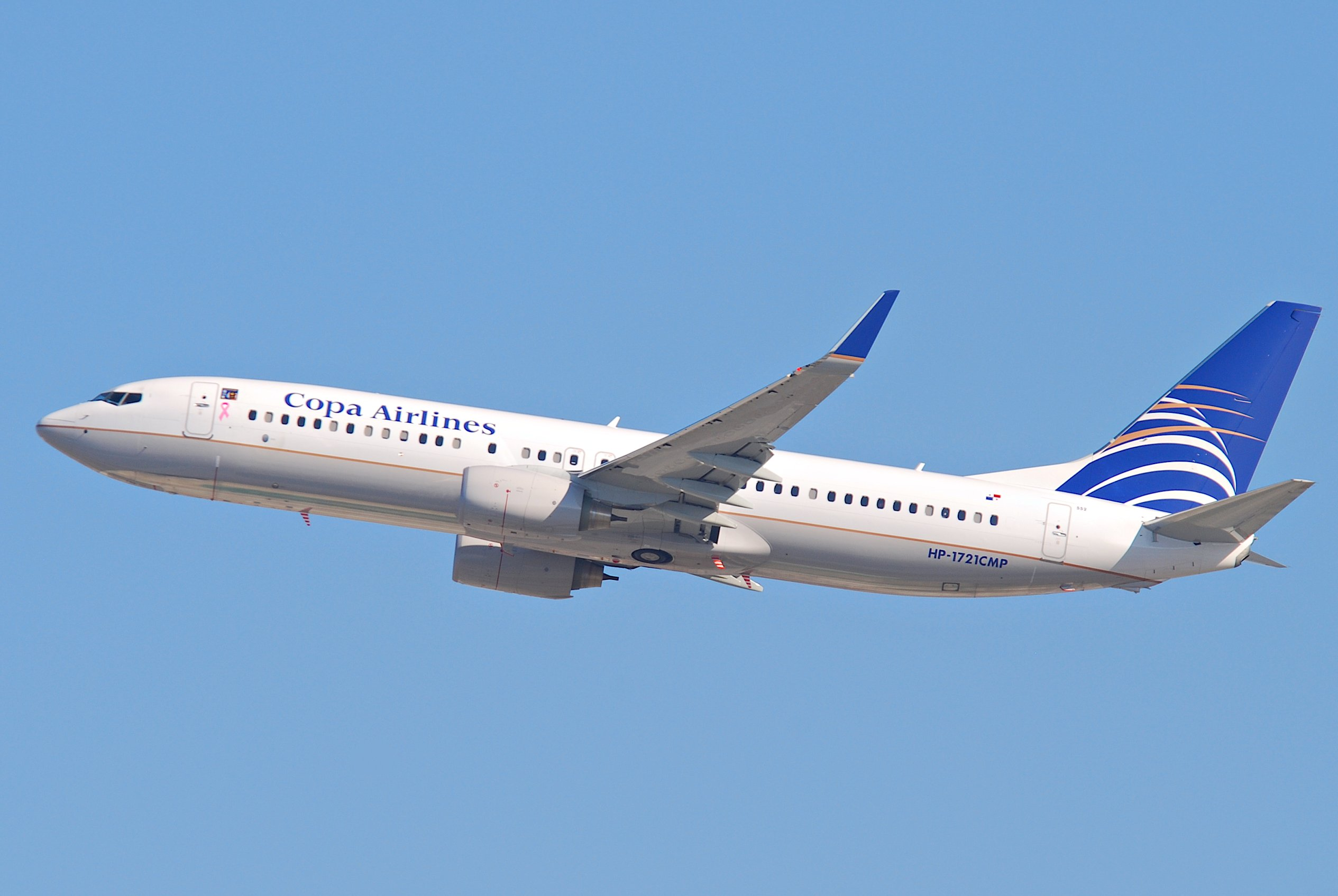 This Boeing 737-8V3 was brandnew when pictured: First flight on August 10, 2011 (c/n: 40362/ 3751).